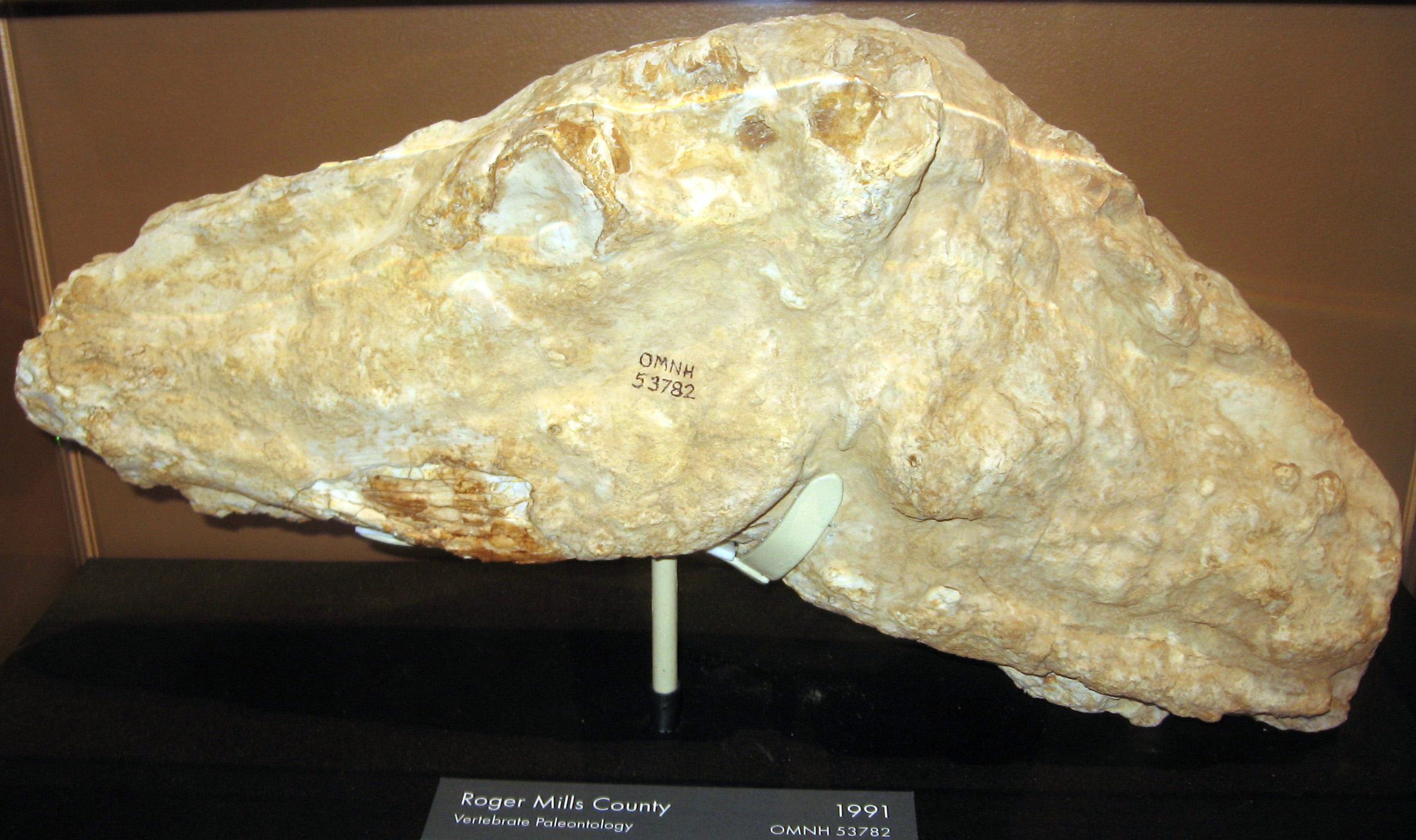 Fossilised mummy of Procamelus, an extinct camelid from the Miocene of North America. Specimen information from The Sam Noble Oklahoma Museum of Natural History: specimen # OMNH 53782, associated skull, mandible, some cervical vertebrae, portion of right forelimb skeleton, partially articulated; Kirkland (1993:figs. 1-11). * Locality: V911, Roger Mills County, Oklahoma; Ogallala Formation; Miocene.